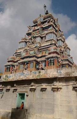 Thanjavurpillayarpattivinayakartemple தஞ்சாவூர் பிள்ளையார்பட்டி விநாயகர் கோயில்